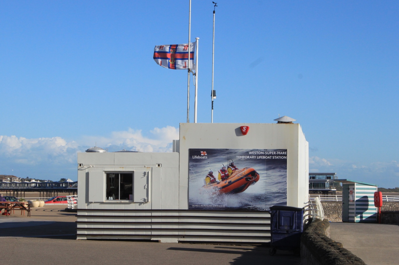 The Royal National Lifeboat Institution's temporary station at Knightstone Harbour, Weston-super-Mare, seen from the north. the boathouse is on the right and crew quarters on the left.